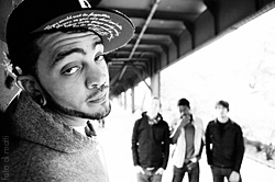 Bandshot of the Gym Class Heroes, photographed by Matti Hillig. The photo was taken in Berlin, Kreuzberg right before their concert on Sept 24, 2008. Gym Class Heroes is a United States rap rock band from Geneva, New York, United States. The band is noted for displaying hip-hop influences while performing alongside artists who are mainly considered to be rock, pop-punk, and metal bands. High-resolution versions of this and more photos are available. Please contact me